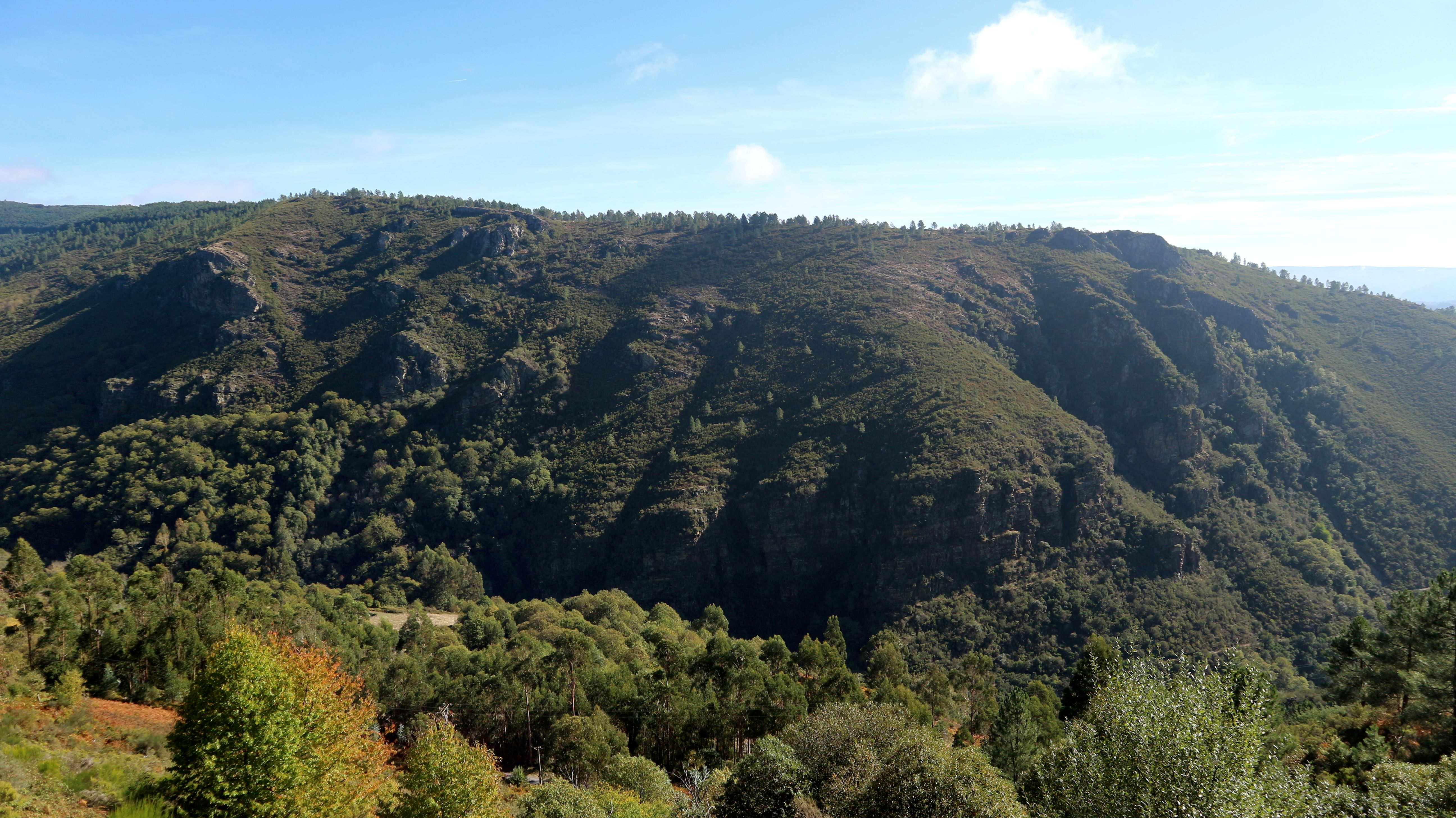 Geological fold of Campodola-Leixazós, Quiroga (Lugo). Declared an spanish Natural Monument and Geosite, and an UNESCO Global Geopark.